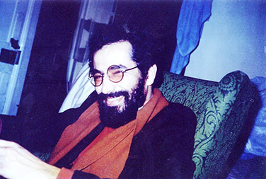 Hassan Sharif during his studies, 1983